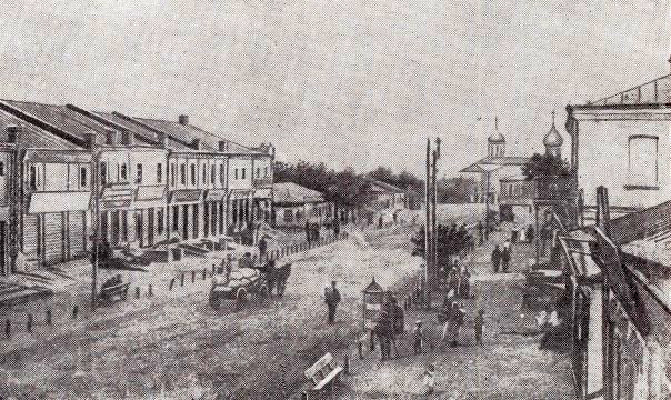 The main street of of Kryvyi Rih, the beginning of the twentieth century.